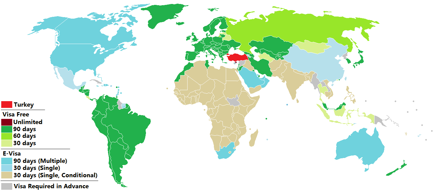 Visa policy of Turkey Turkey Unlimited stay Visa-free - 90 days Visa-free - 60 days Visa-free - 30 days eVisa - 90 days (multiple entries) eVisa - 30 days (single entry) eVisa - 30 days (Conditional) Visa required in advance